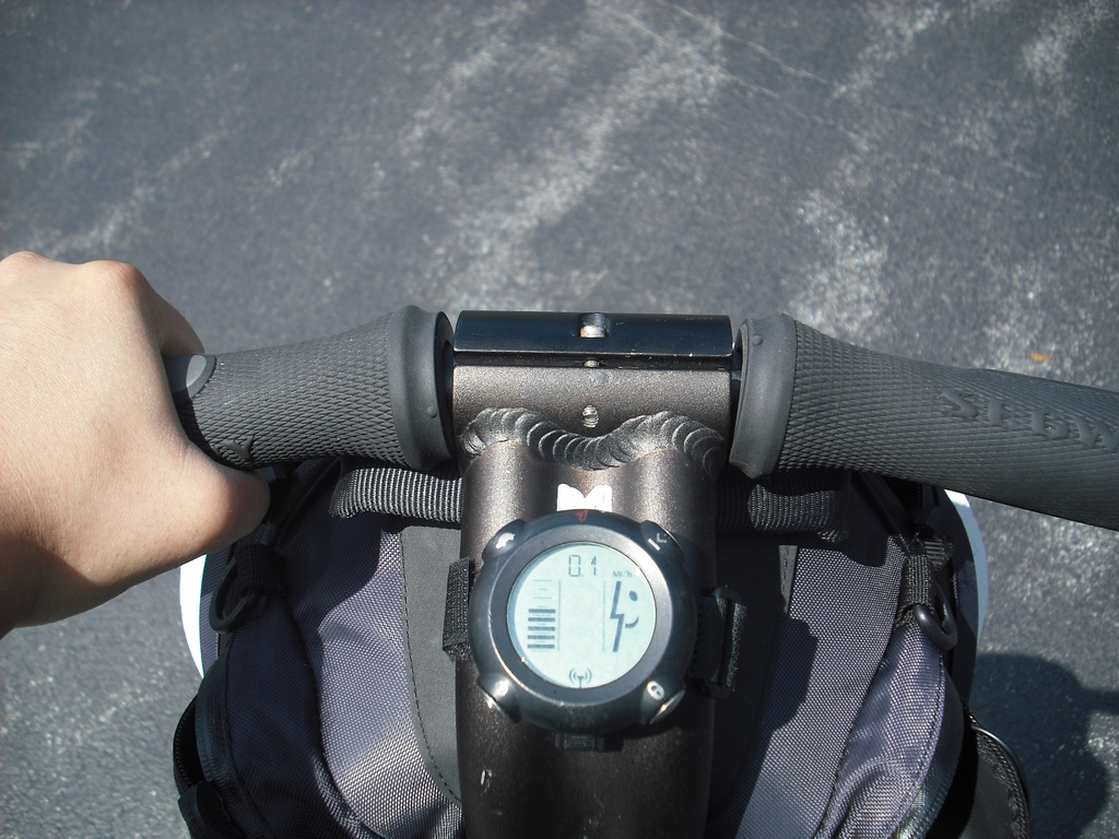 Infokey of Segway PT